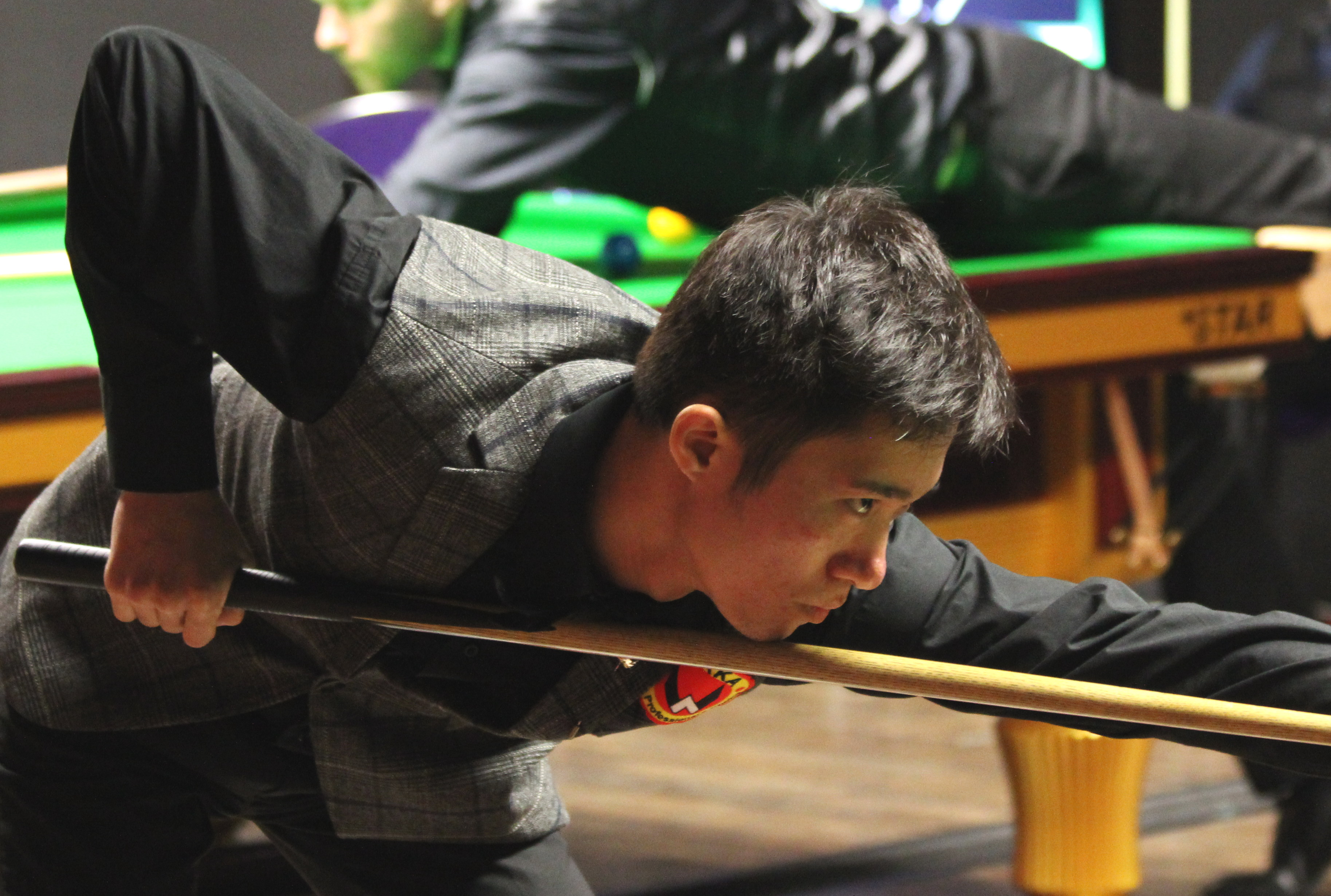 Cao Yupeng beim Paul Hunter Classic 2016